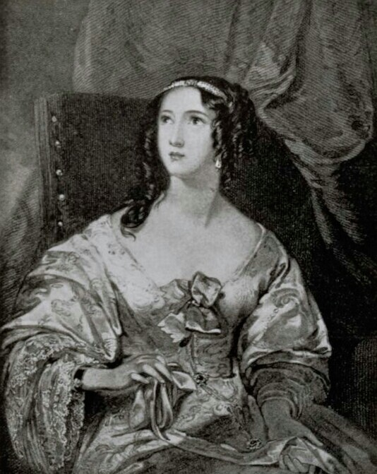 Portrait of Madame de St. Laurent.